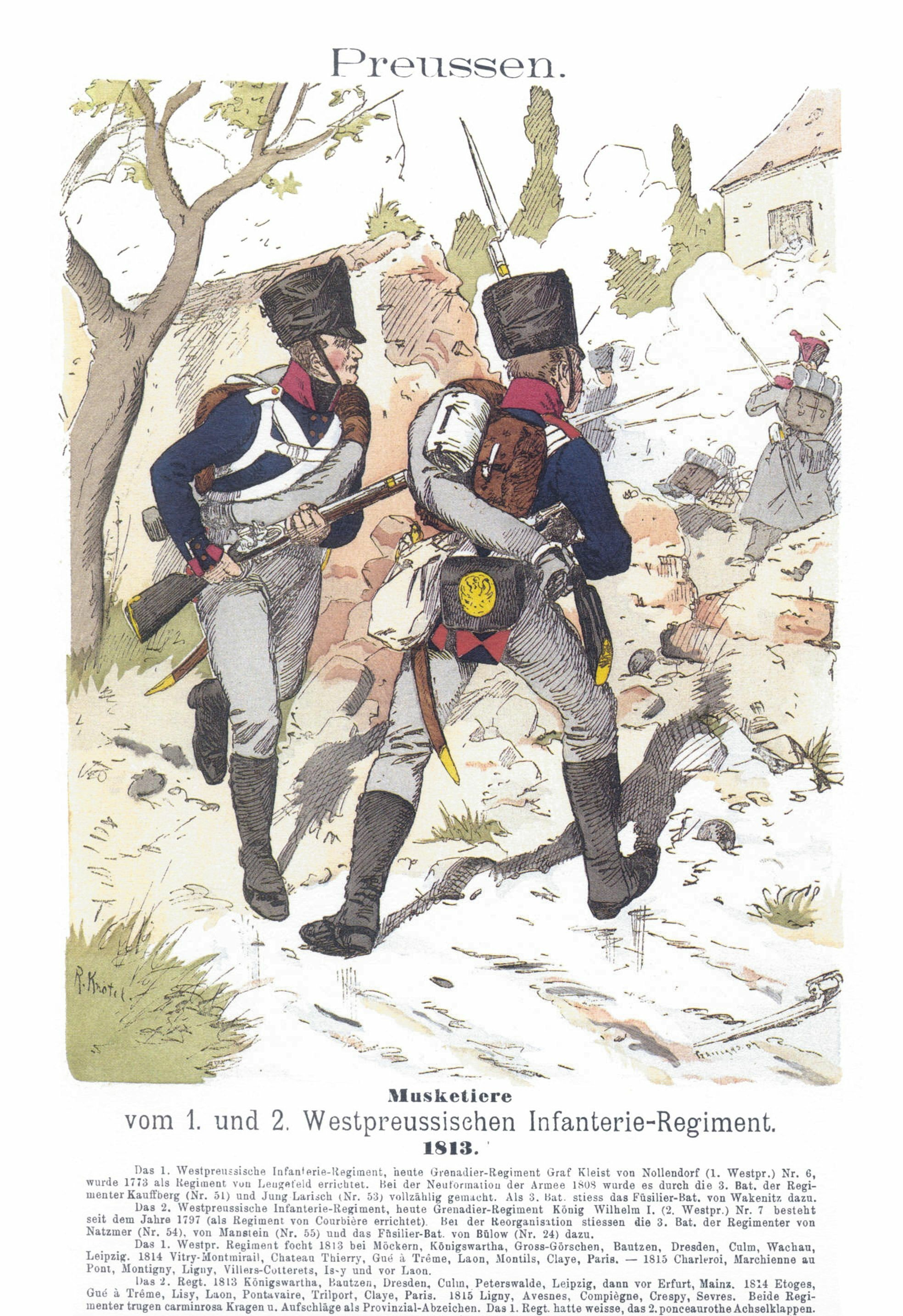 Musketiere vom 1. und 2. Westpreußischen Infanterie-Regiment. 1813